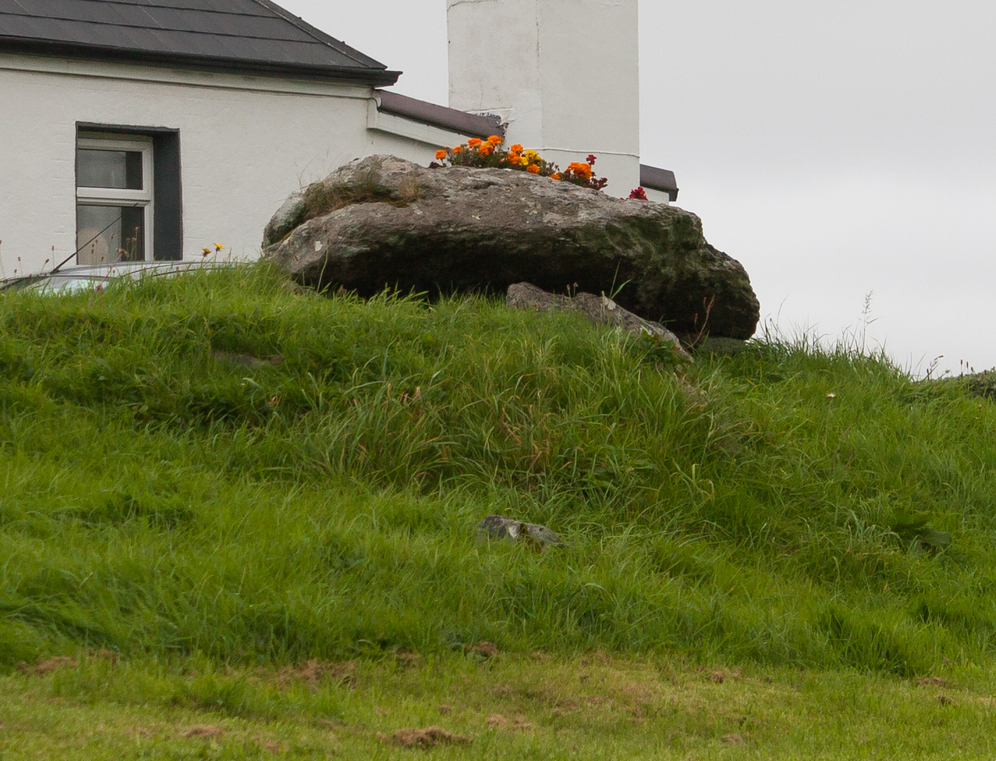 Ardnagreevagh wedge tomb, incorporated in the apparent remainings of a circular enclosure. (On private ground but photographed from the road.)